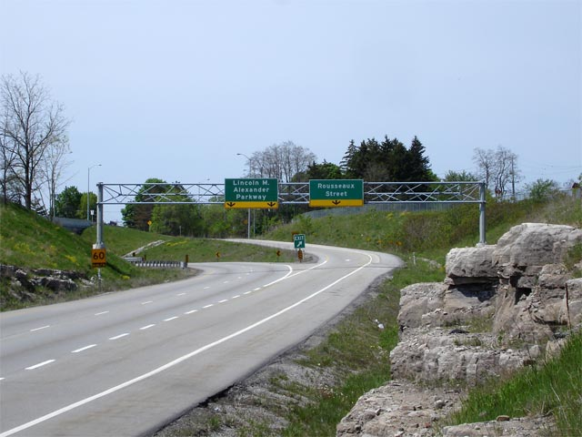 The Lincoln Alexander Parkway, officially nicknamed "The Linc", a municipal expressway in the Canadian city of Hamilton, Ontario, Canada